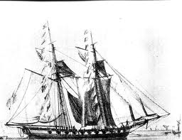 Sketch of the United States Navy schooner USS Enterprise, circa 1799.